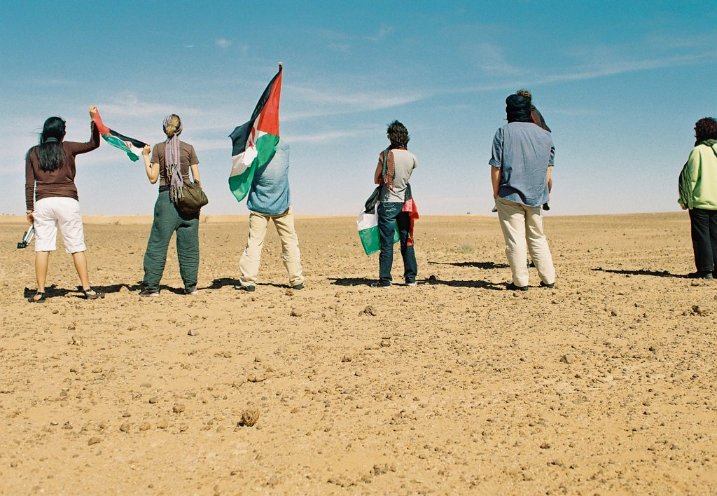 Facing the Berm, Western Sahara.